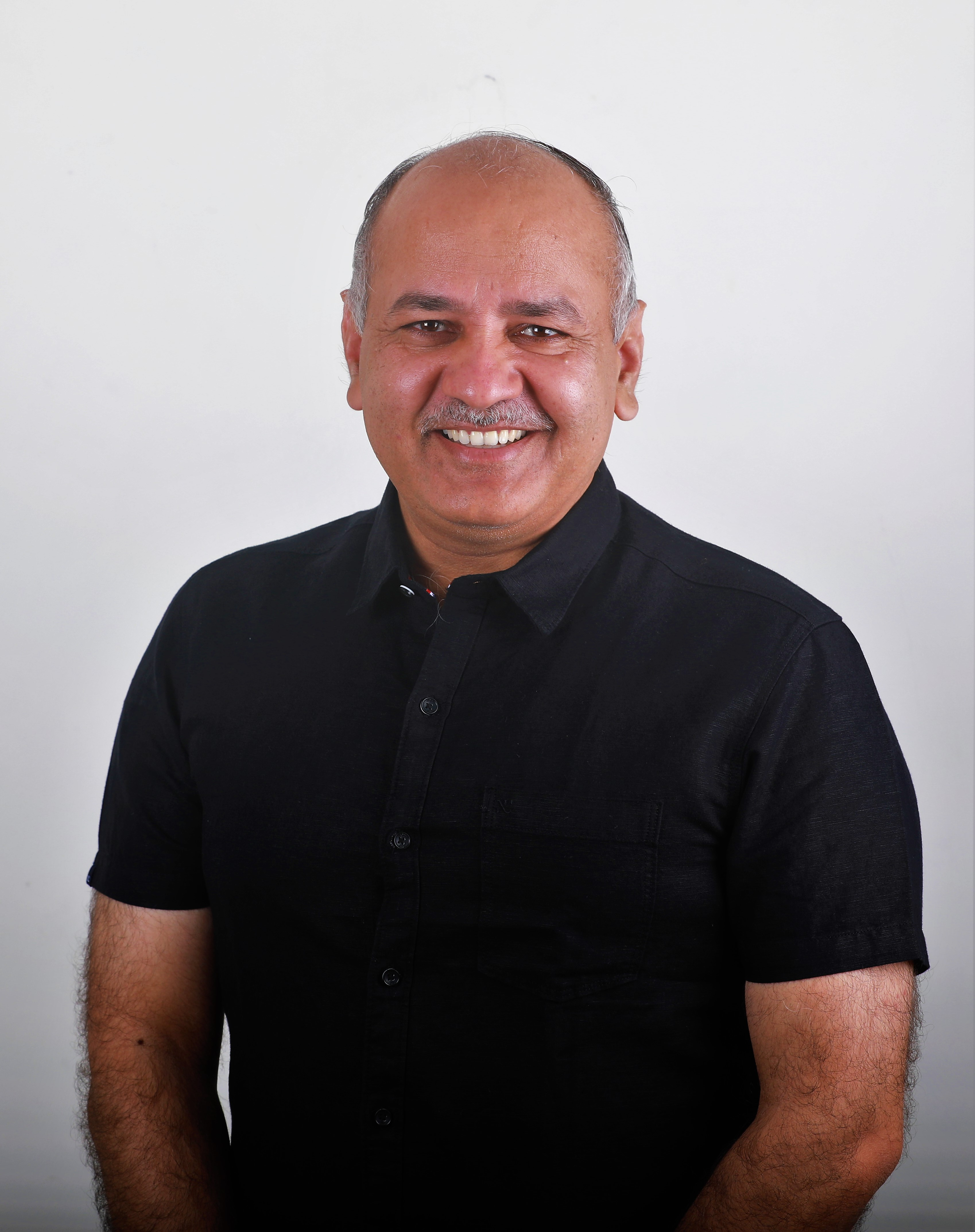 Deputy CM of Delhi Manish Sisodia at the Delhi Secretariat